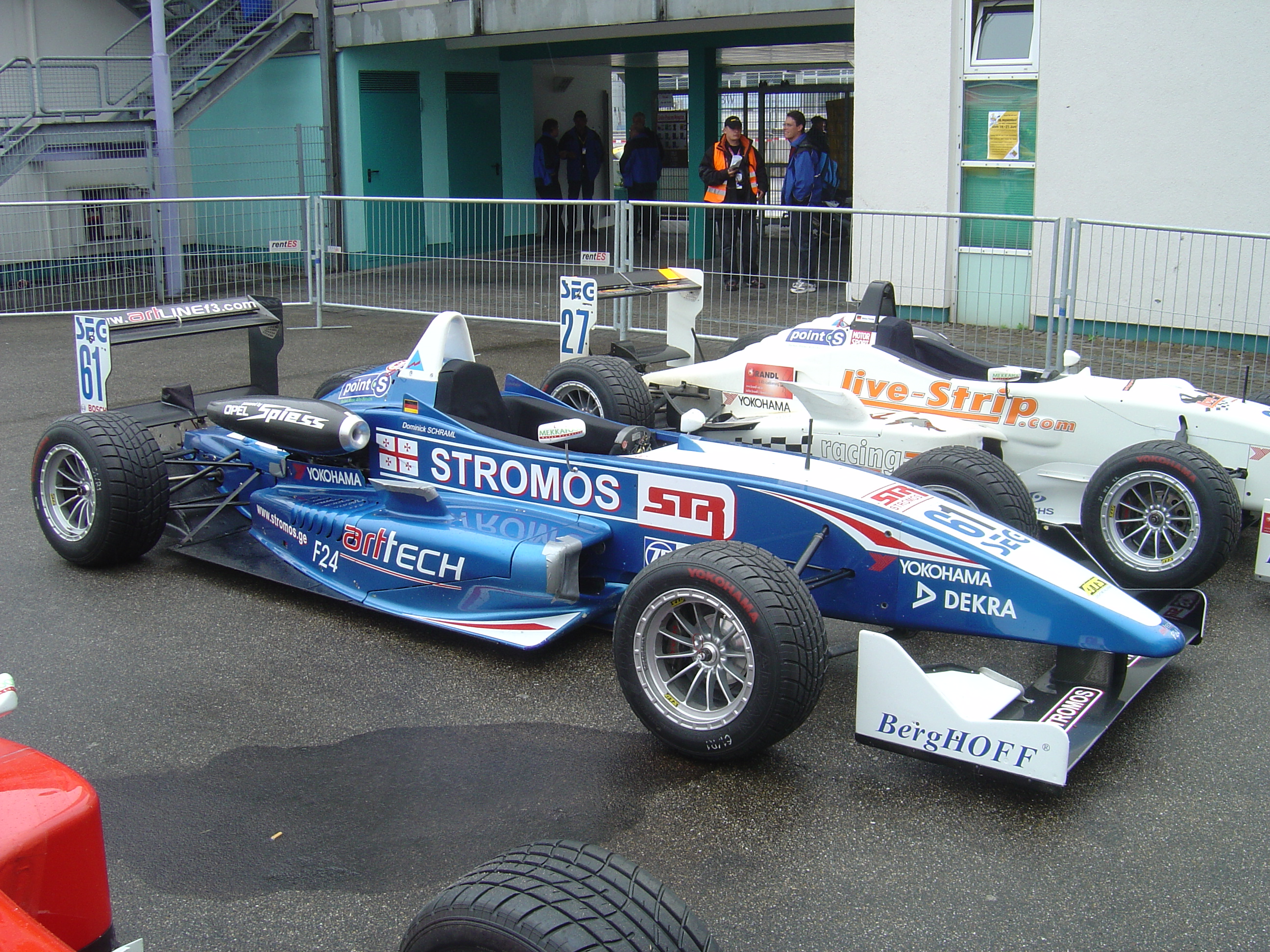 STROMOS Artline's ArtTech F24 Formula 3 car (ATS Formula 3 Cup): the photo was taken during 2009's ADAC GT Masters race weekend at Hockenheim